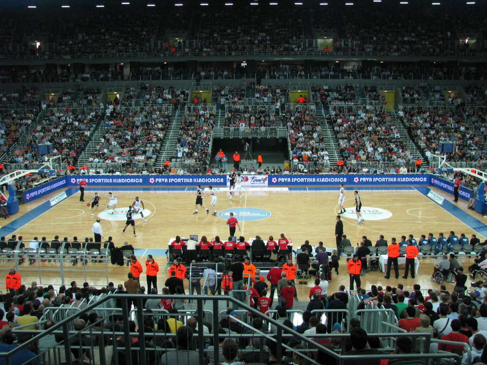 KK Cibona Zagreb vs KK Partizan Beograd, NLB League Final, Arena Zagreb, 25/4/2010